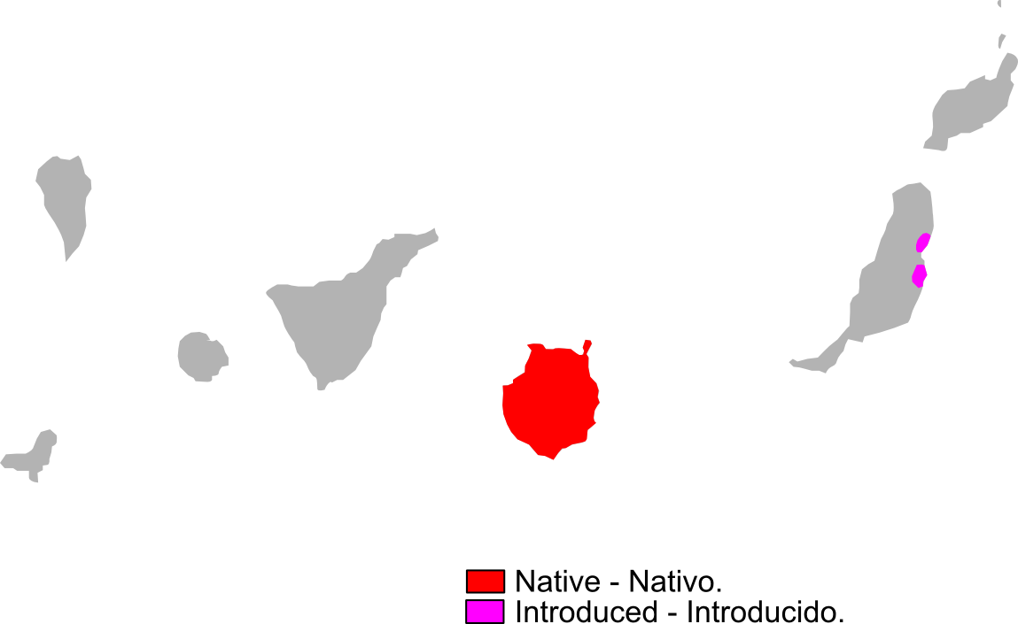 Gallotia stehlini distribution map.